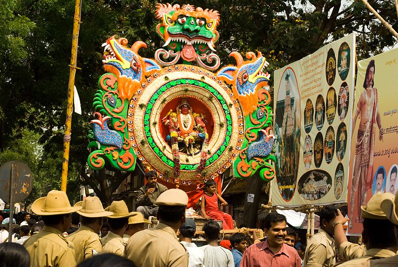 Shot @ Phu Palaki Fair, Ulsoor, Bangalore, April, 2008. A palaki or pallaki is a poled, suspended chair used to carry maharajas or sahibs. We suspect Happy Phu Palaki is related. It is a tradition at Hindu temples to employ a chariot in which the idol is transported. The famed stone chariot of the ancient temple complex of Hampi is a good example of the deep roots of this tradition. Once the idols were in their chariots, devotees gathered with drums and horns. The drumming is frenetic as is the responsive gyrations of the faithful. You can feel the drum reverberations in the air pressing about your body. It is a spectacle without equal.